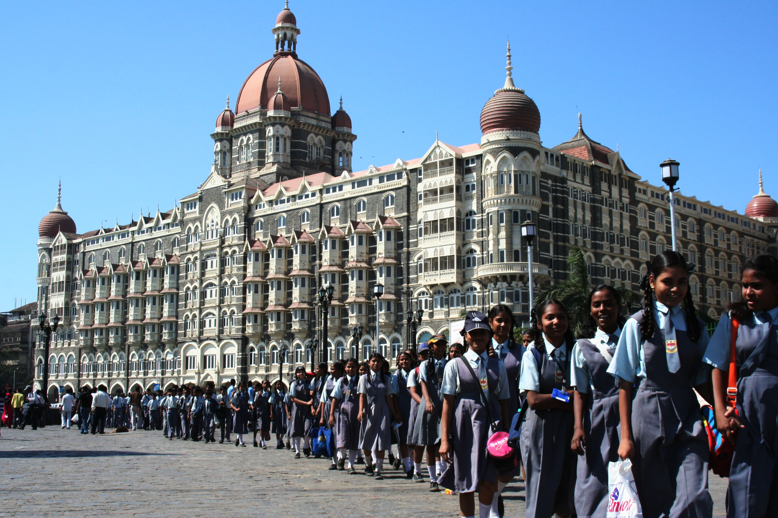 A line of children in school uniform walks past Taj Mahal Hotel in Mumbai. Photography by the NGO medaptMumbaiker school children